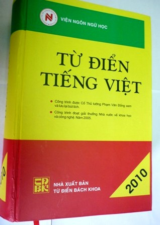 hdfhfhf